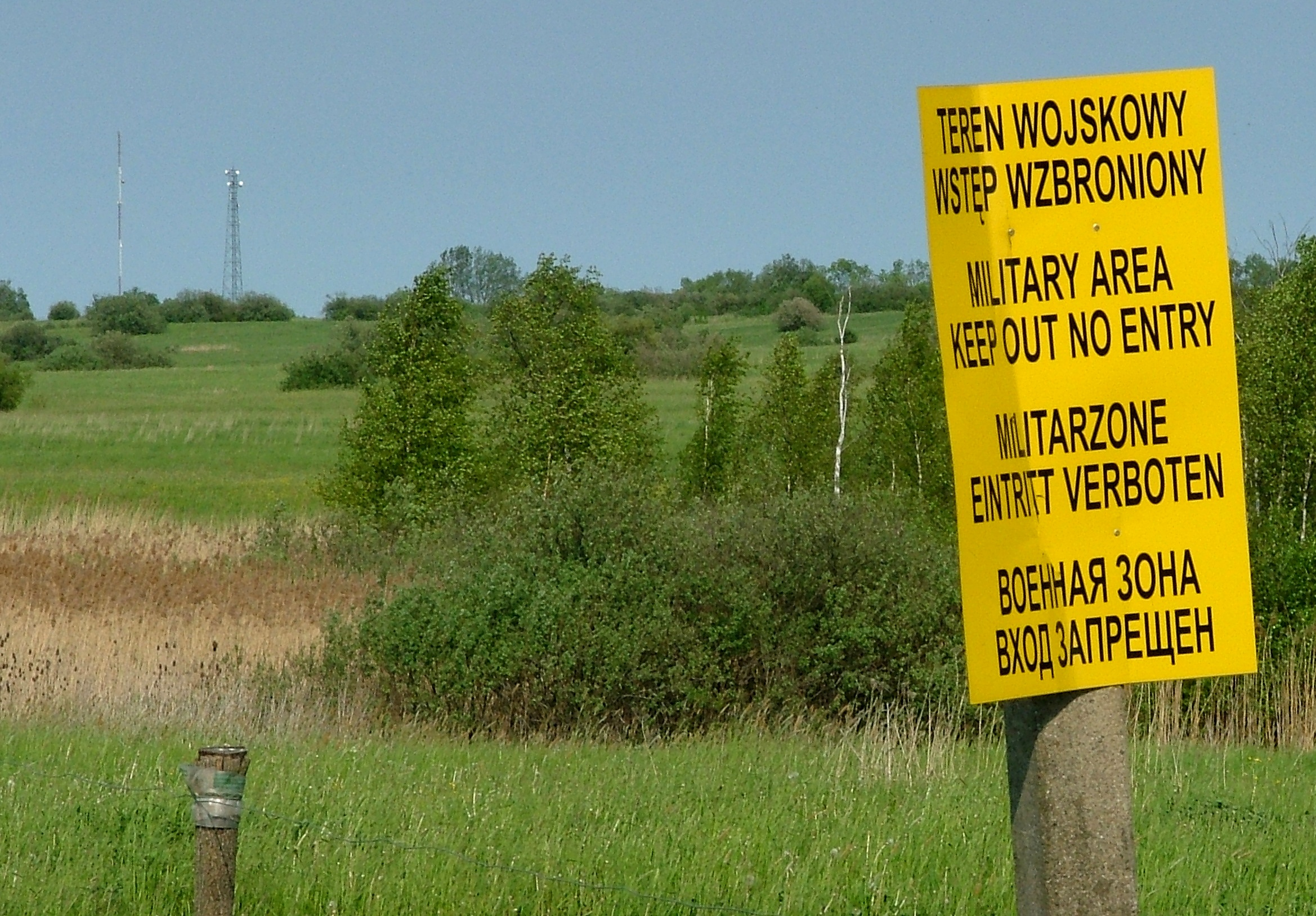 Lidzbark Warminski military site